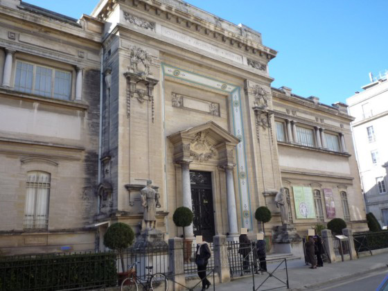 Musée des Beaux Arts, Nîmes, Gard, France.